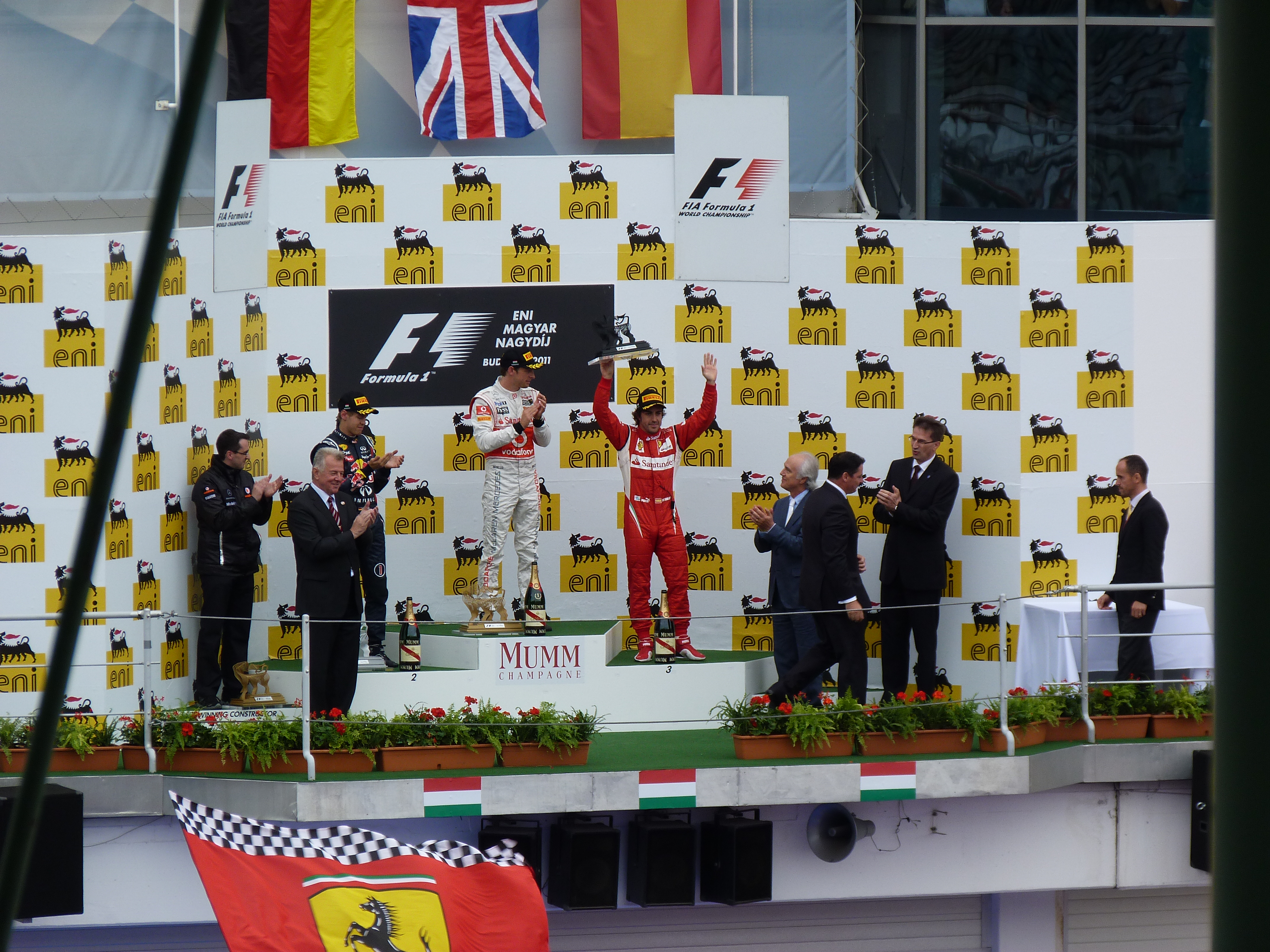 Live on the 31 st of July, 2011. Hungaroring, Mogyoród, Hungary. The 26 th Formula 1 Hungarian Grand Prix started at 2 pm. Schmitt Pál, President of Hungary. Budapest has always been special place for Jenson Button: it was here that he took his first Grand Prix win five years ago - and it is here that he has taken victory in his 200th Grand Prix. Red Bull's Sebastian Vettel stretched his commanding lead in the championship with a second-place finish in wet conditions Sunday.